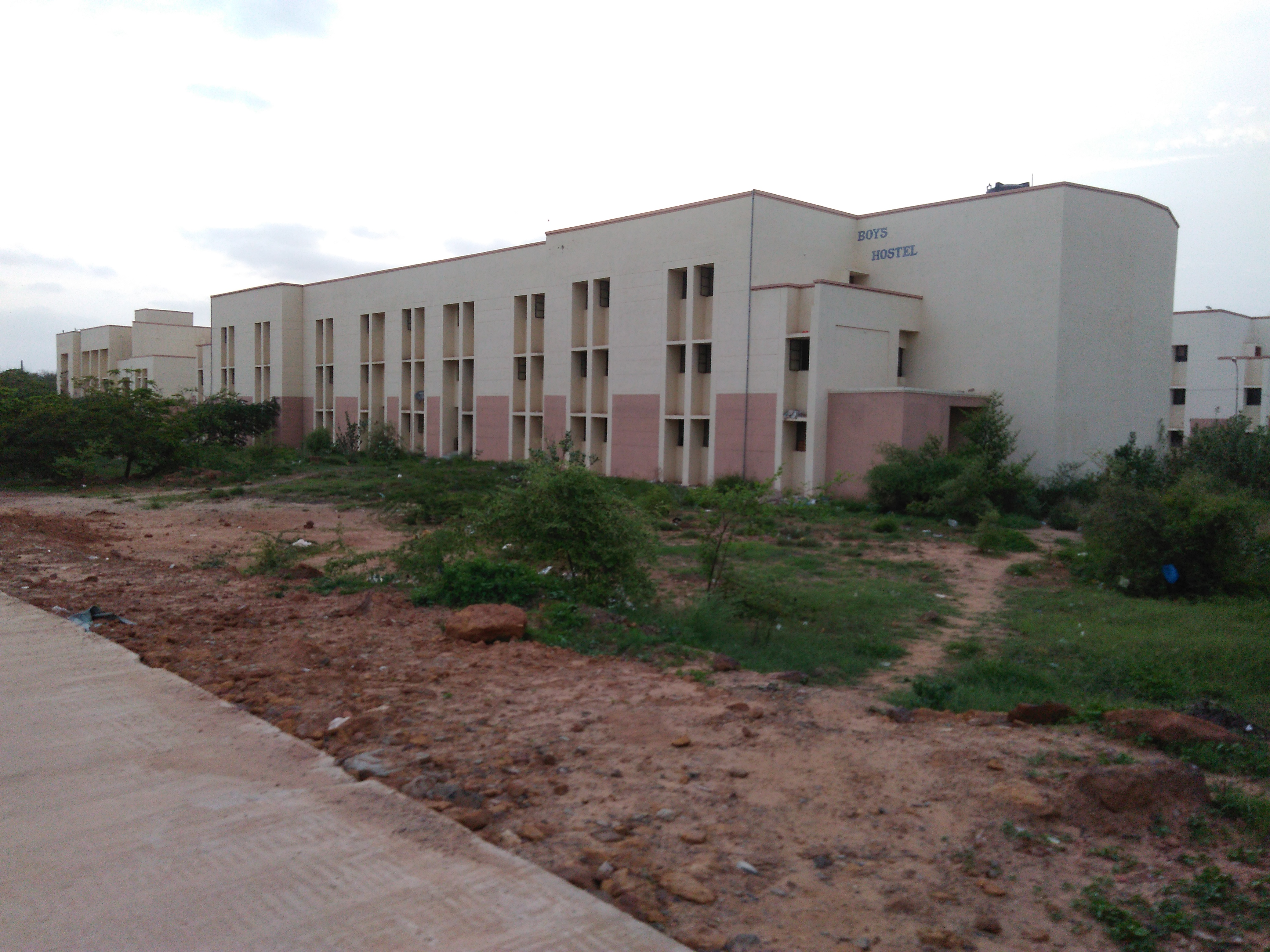 Newly built Hostel-3 is visible in the background.